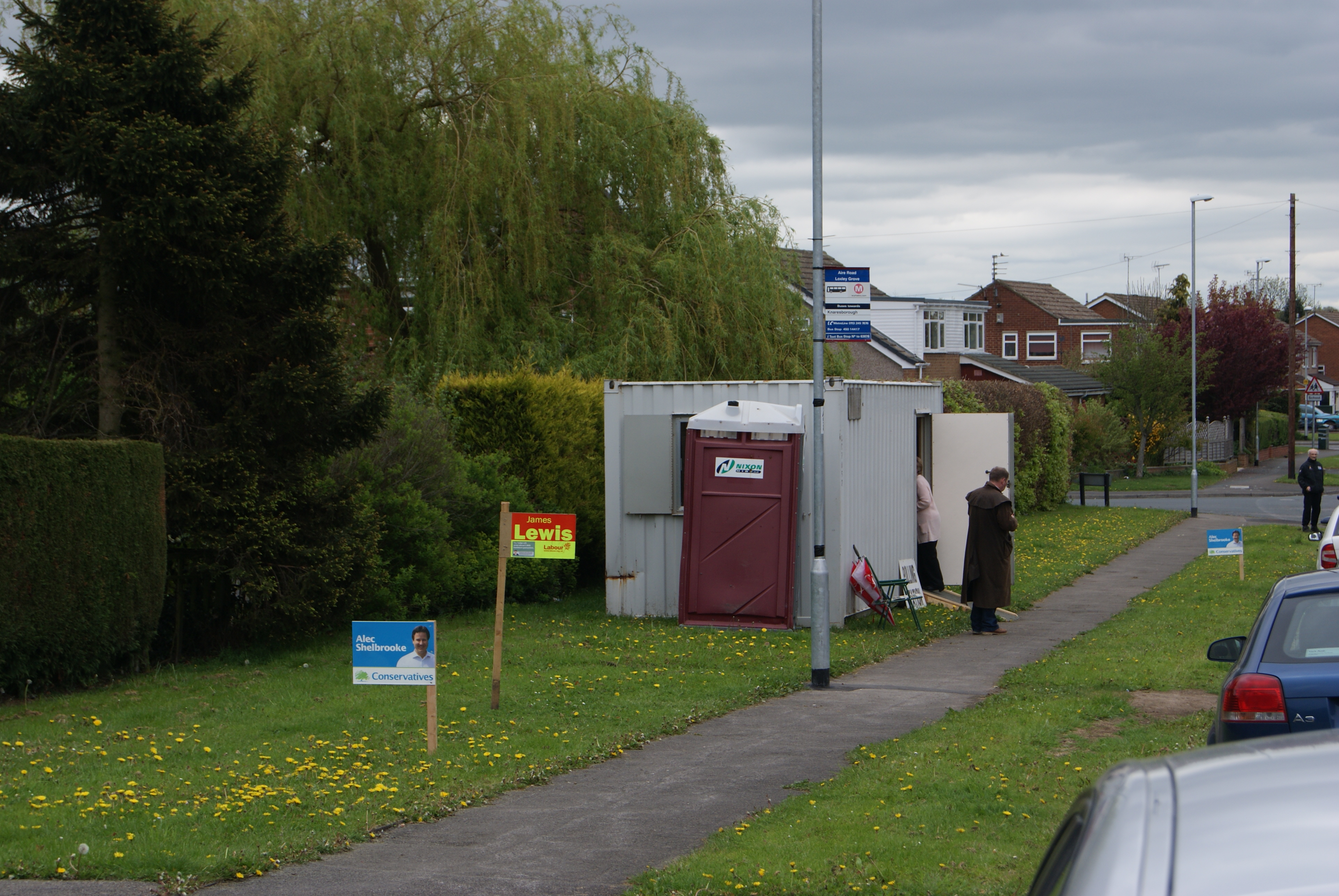 A temporary building in use as a polling station on Aire Road in Wetherby, West Yorkshire. To my knowledge this has never been here before, but now seems to be used as well as the Deighton Gates polling station. There are election posters outside for both the Conservative and Labour candidate and a hopeful Conservative canvaser outside hoping that his party will remove the incumbent Labour MP. Taken on the afternoon of Thursday the 6th of May 2010.